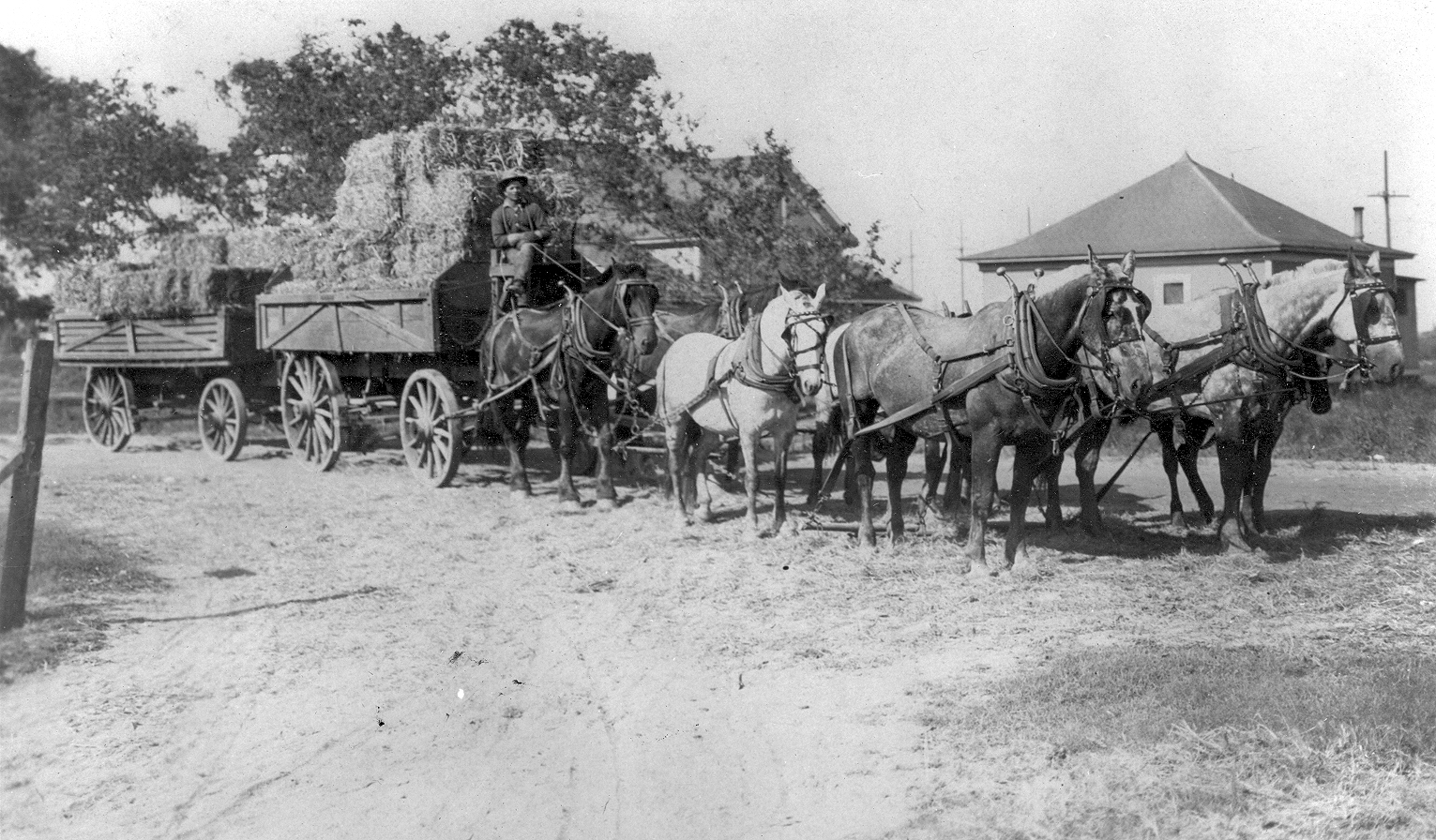 There are no known copyright restrictions on this image. All future uses of this photo should include the courtesy line, "Photo courtesy Orange County Archives."